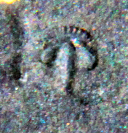 Internal moult of the cephalon of Pagetia fossula trilobite, 2mm, Order Agnostida, Family Eodiscidae, from the Manuals River formation, near Killegrews, Newfoundland, from the Middle Cambrian. Although speckly from excessive enlargement, the image is showing the scrobiculate border and the large backward directed glabellar spine, characteristic for Eodiscid trilobites